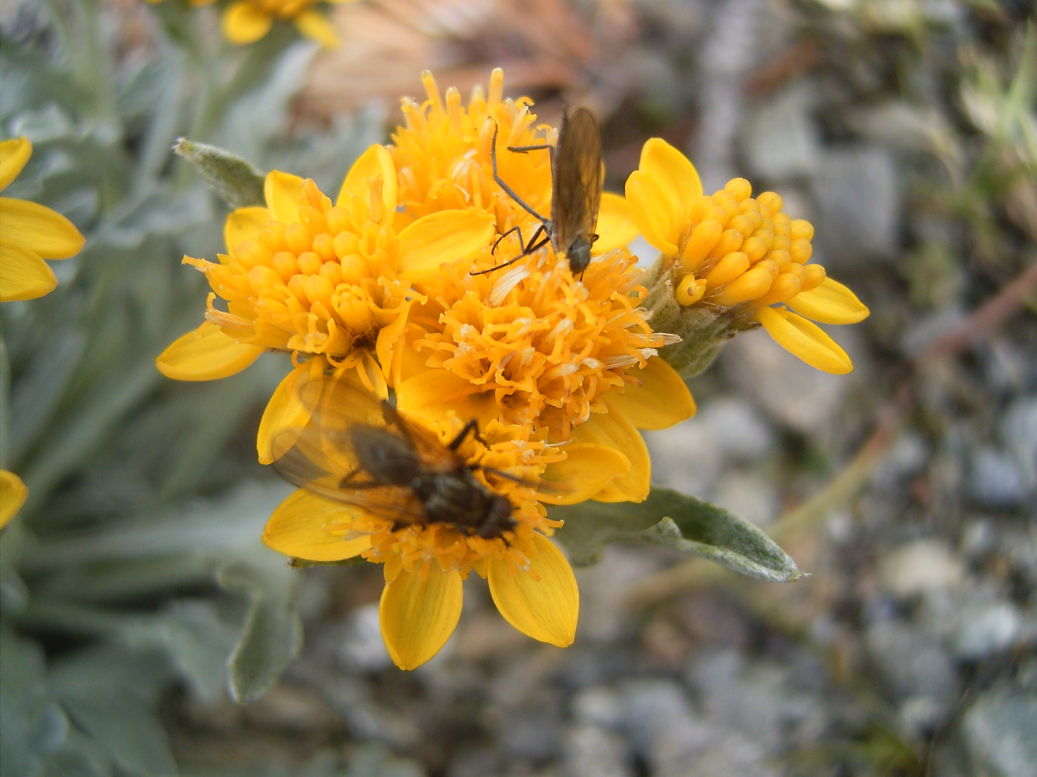 This photo shows Senecio invanus